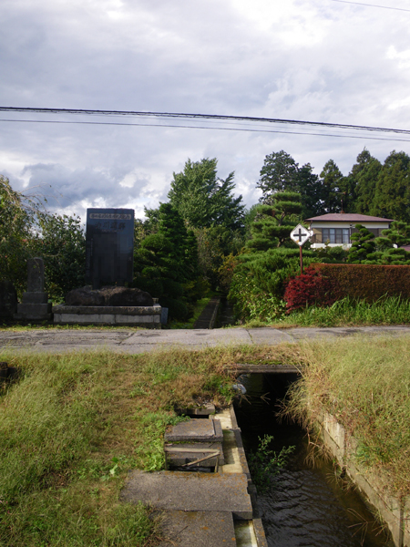 Kinomata-yōsui aqueduct, at old Kuroiso city. Nasushiobara, Tochigi, Japan.